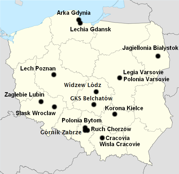 Ekstraklasa 2010/2011 map.